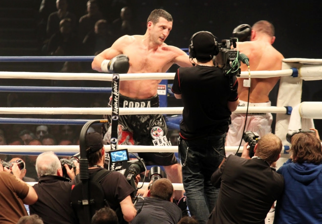 Carl Froch (on the left) vs. Arthur Abraham at Hartwall Arena in Helsinki, Finland on November 27, 2010. The fight was aired in many countries.